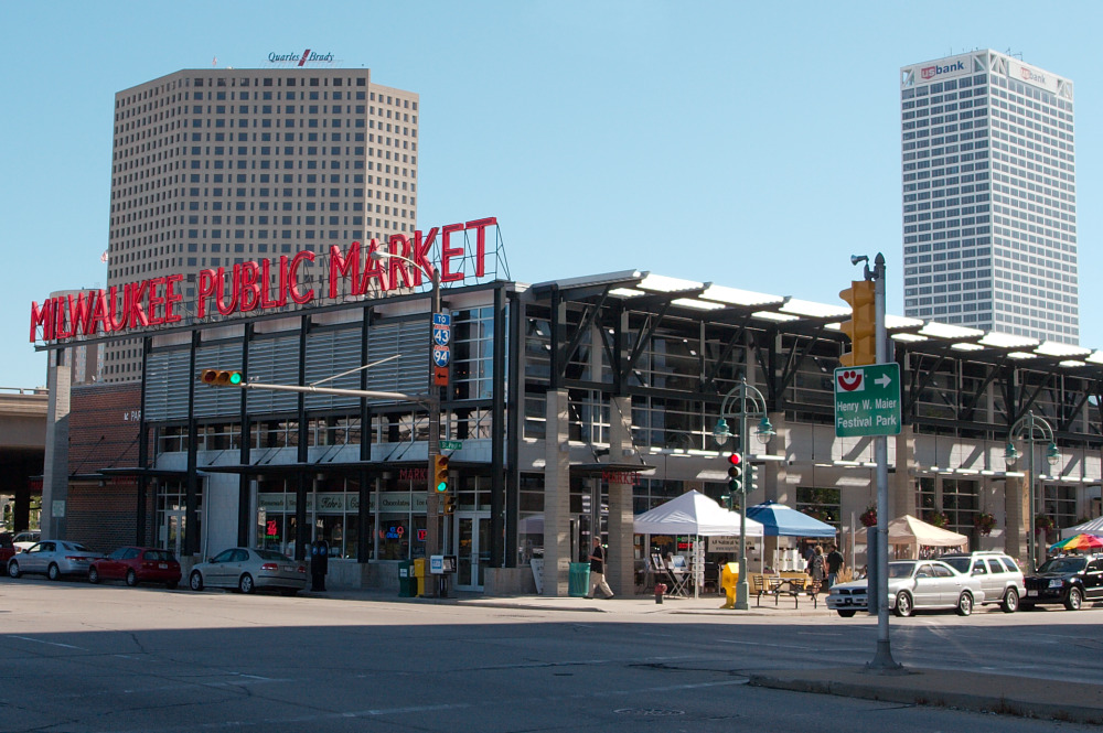 Milwaukee, Wisconsin The Milwaukee Public Market